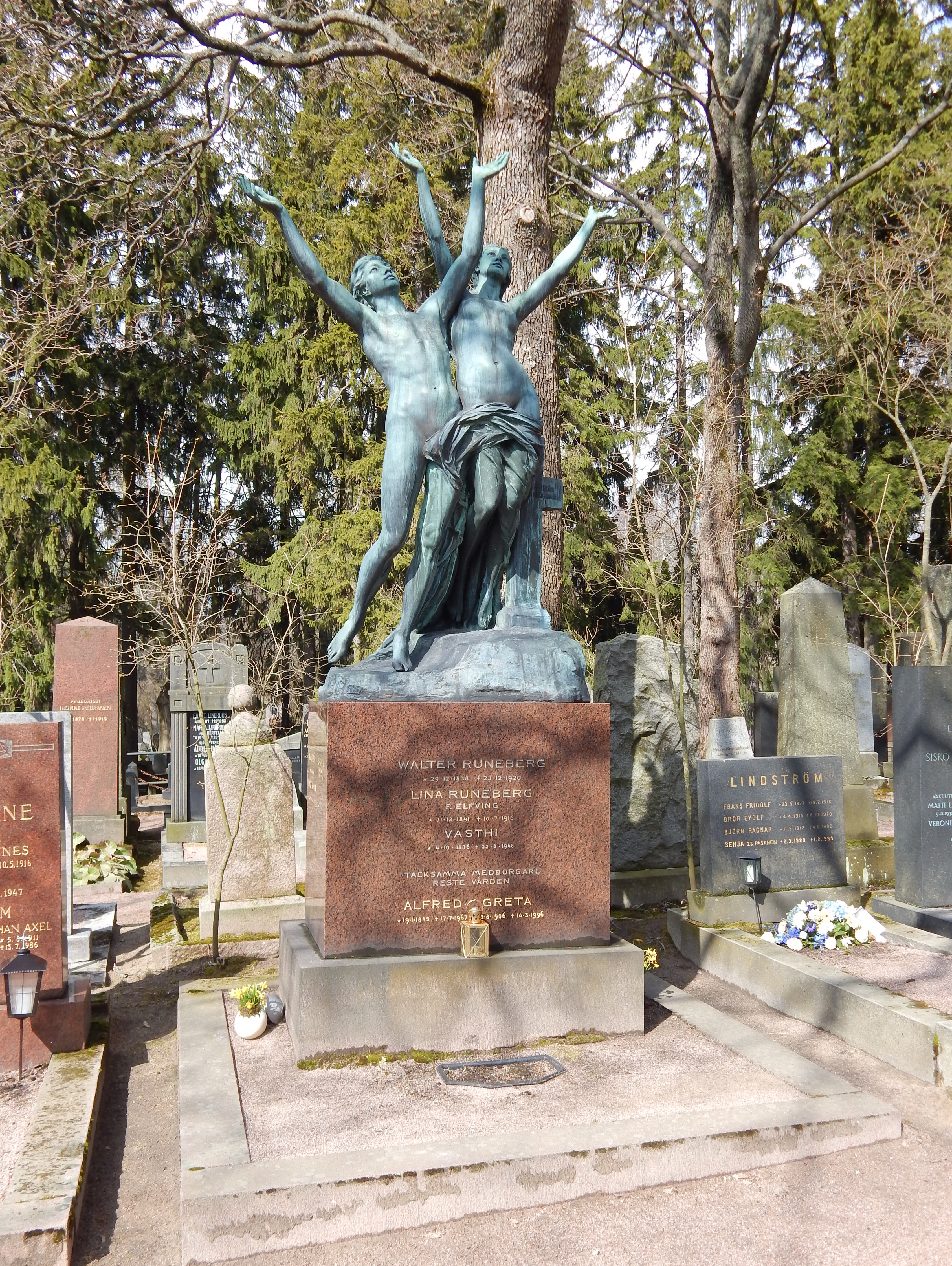 Runeberg family grave with sculpture by Walter Runeberg